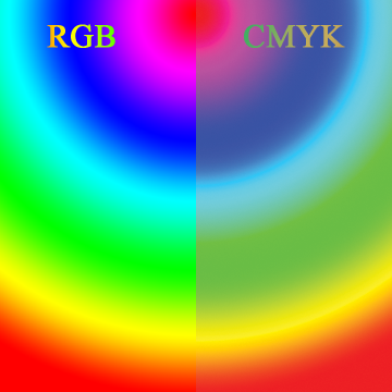 A comparison of RGB and CMYK color spaces. The image demonstrates the difference between the RGB and CMYK color gamuts. The CMYK color gamut is much smaller than the RGB color gamut, thus the CMYK colors look muted. If you were to print the image on a CMYK device (an offset press or maybe even a ink jet printer) the two sides would likely look much more similar, since the combination of cyan, yellow, magenta and black cannot reproduce the range (gamut) of color that a computer monitor displays. This is a constant issue for those who work in print production. Clients produce bright and colorful images on their computers and are disappointed to see them look muted in print. (An exception is photo processing. In photo processing, like snapshots or 8x10 glossies, most of the RGB gamut is reproduced.)